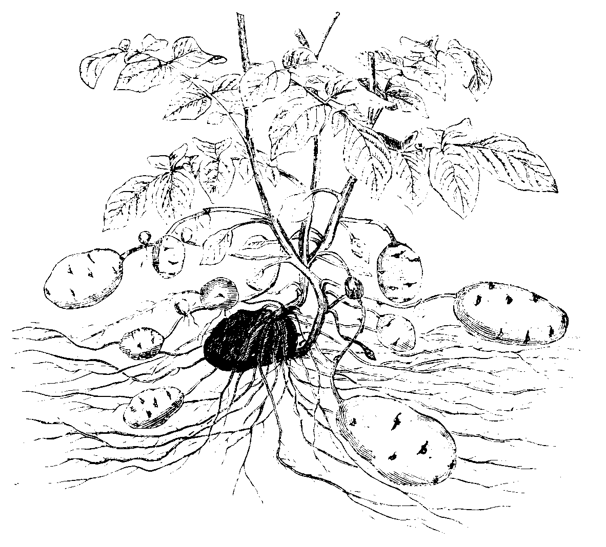 lower part of Solanum tuberosum plant. dark = mother tuber